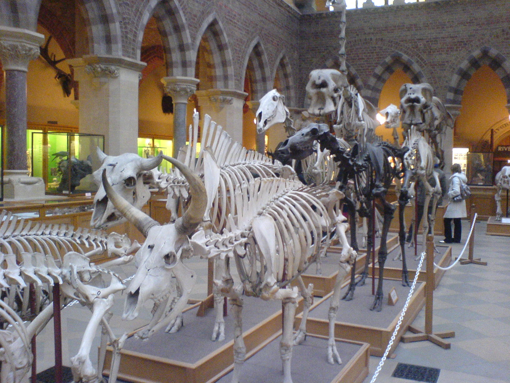 Skeletons of mammals in the Oxford University Museum of Natural History, Oxford, England, UK.